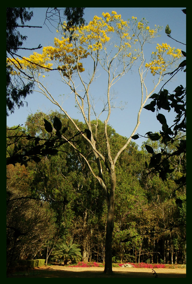 Tabebuia donnell-smithii,this tree is located in the lawn of Raman Research Institute, bangalore India. This tree is a memorial to Sir C V Raman